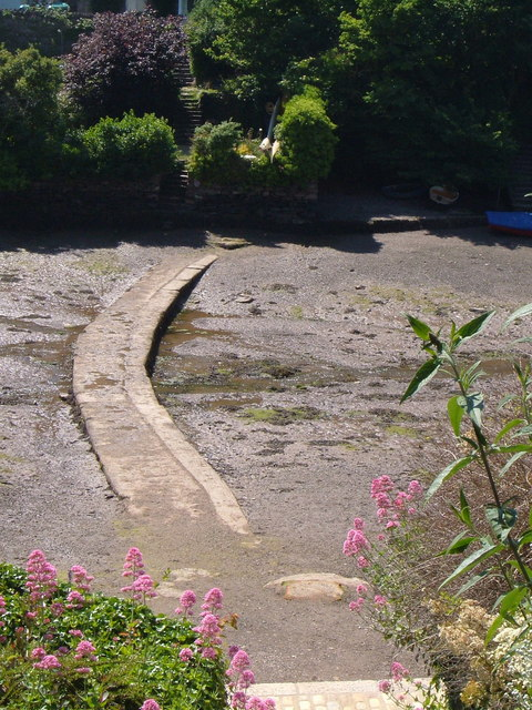 Noss Voss. The voss crosses Noss Creek, linking the two parts of the village, and is covered at high tide. The tempting steps visible on the far side are actually private, and the path turns right before leaving the tidal area. From Pillory Hill; downstream is right.